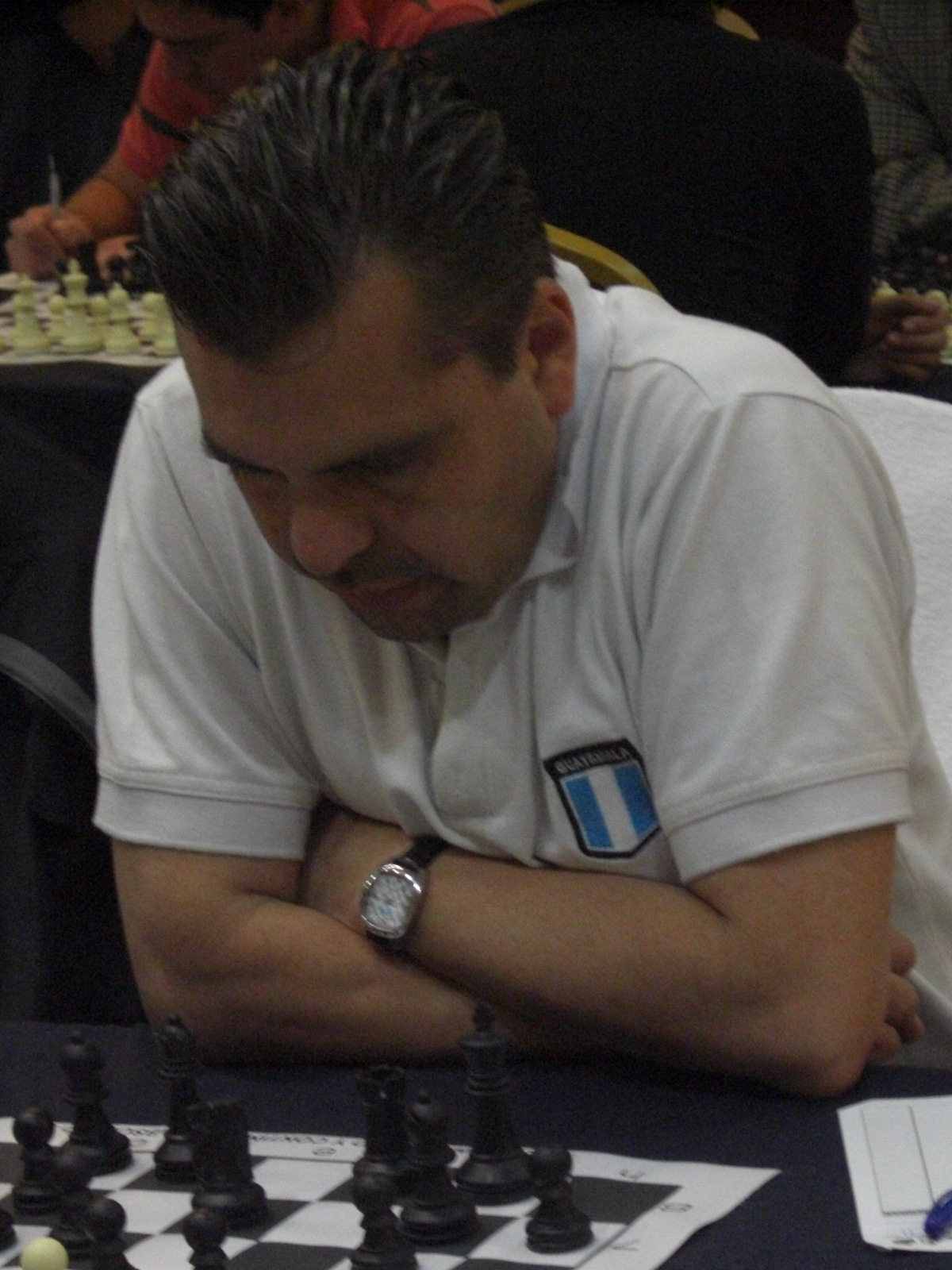 Carlos Juarez Flores during the American Continental Chess Championship in Toluca (Mexico), April 2011